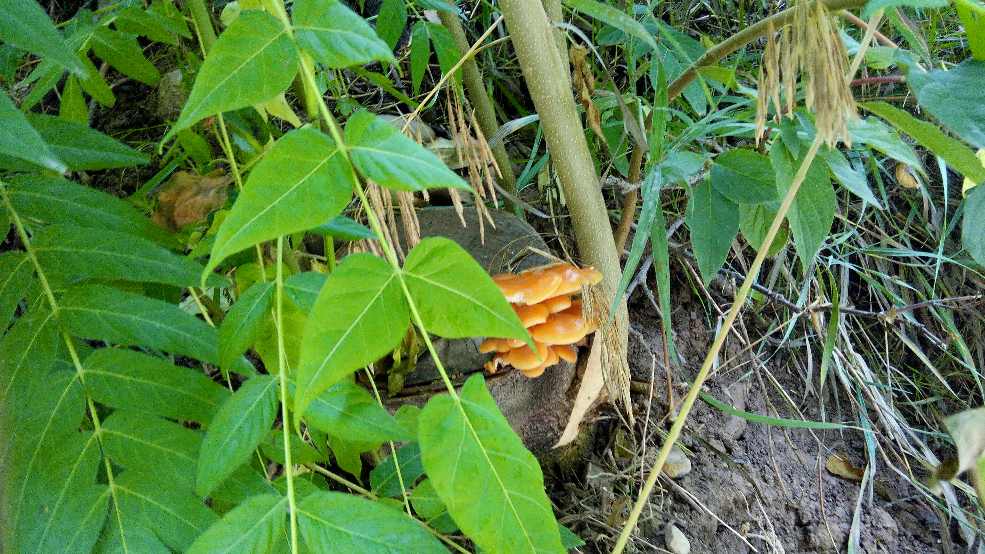 Tree of Heaven Re-sprouting even after herbicide use